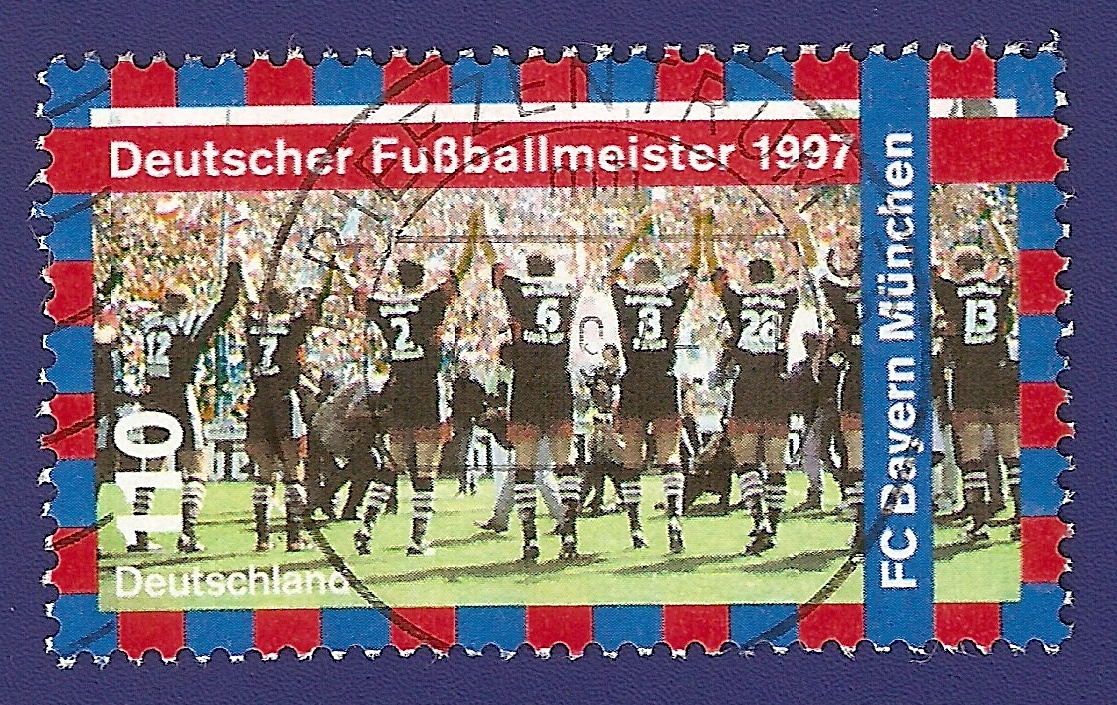 Stamp from Deutsche Post AG from 1997, German soccer champion 1997, FC Bayern Munich